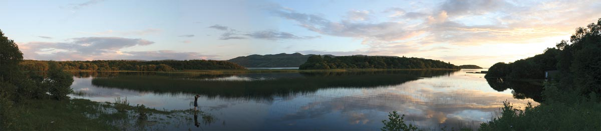 LOUGH MELVIN FROM NORTH-EAST SHORE OVERLOOKING LEITRIM